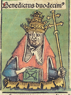 Woodcut from the Nuremberg Chronicle (Latin edition in Sao Paulo)